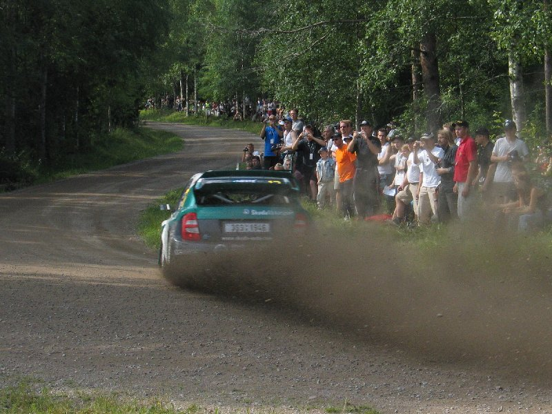 Toni Gardemeister driving his Škoda Fabia WRC at the 2004 Rally Finland.